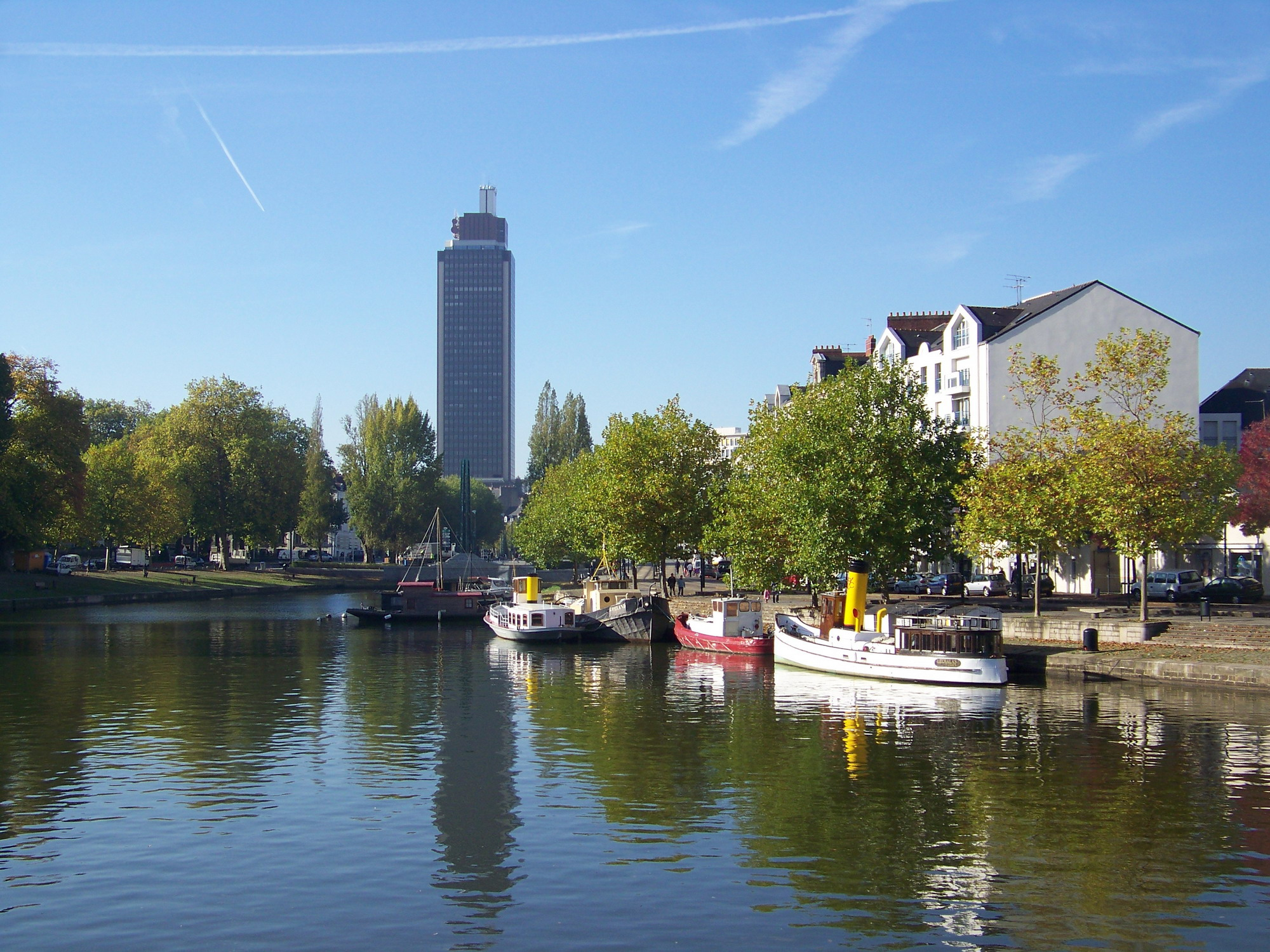 Nantes: the Erdre river and the Bretagne tower.